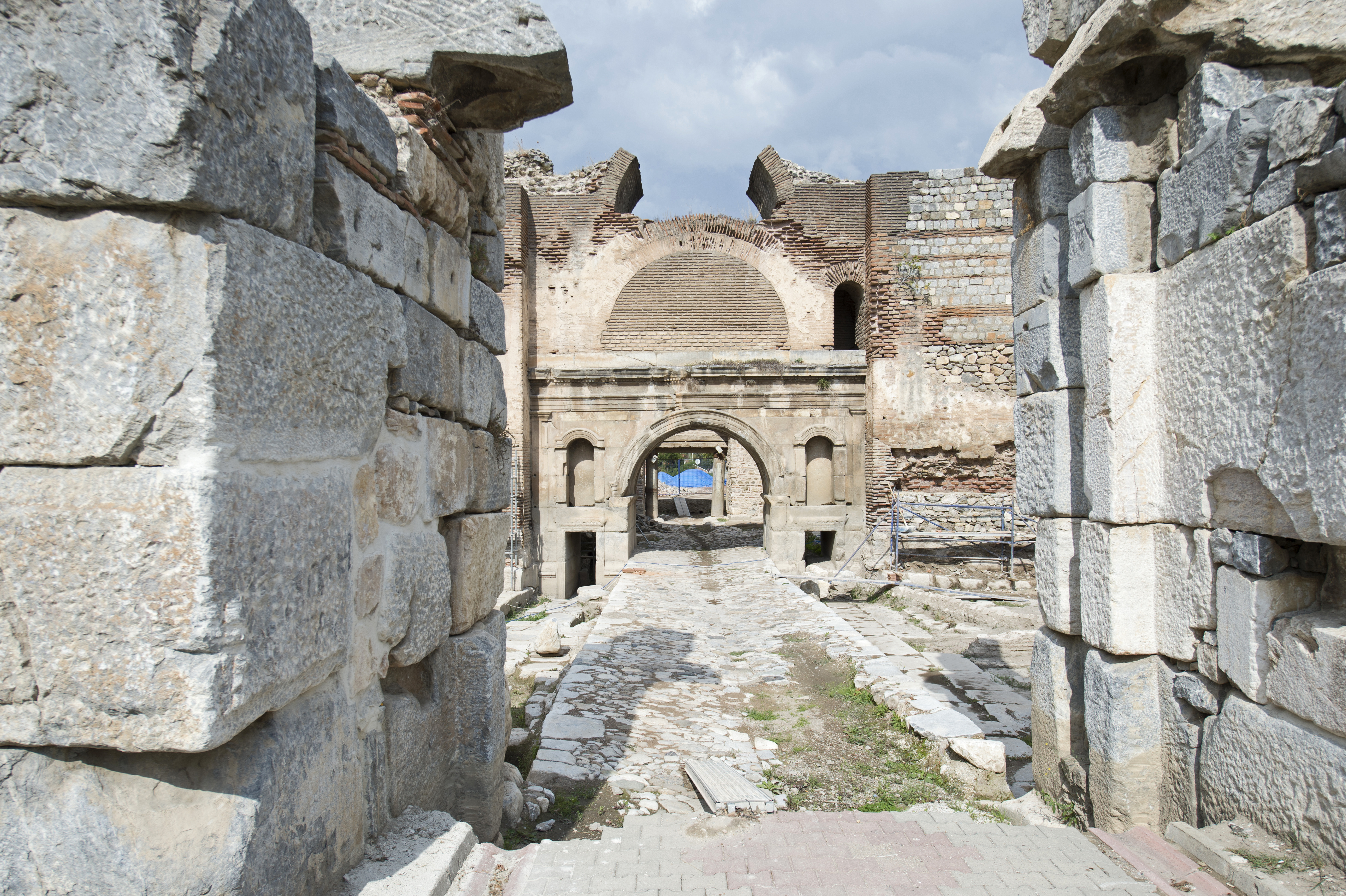 Large parts of the walls that surrounded the town are still in place, and some of its gates have been restored or were being restored (in 2018). This is one. At several points one can walk on the walls, and so have a fine view of the town.